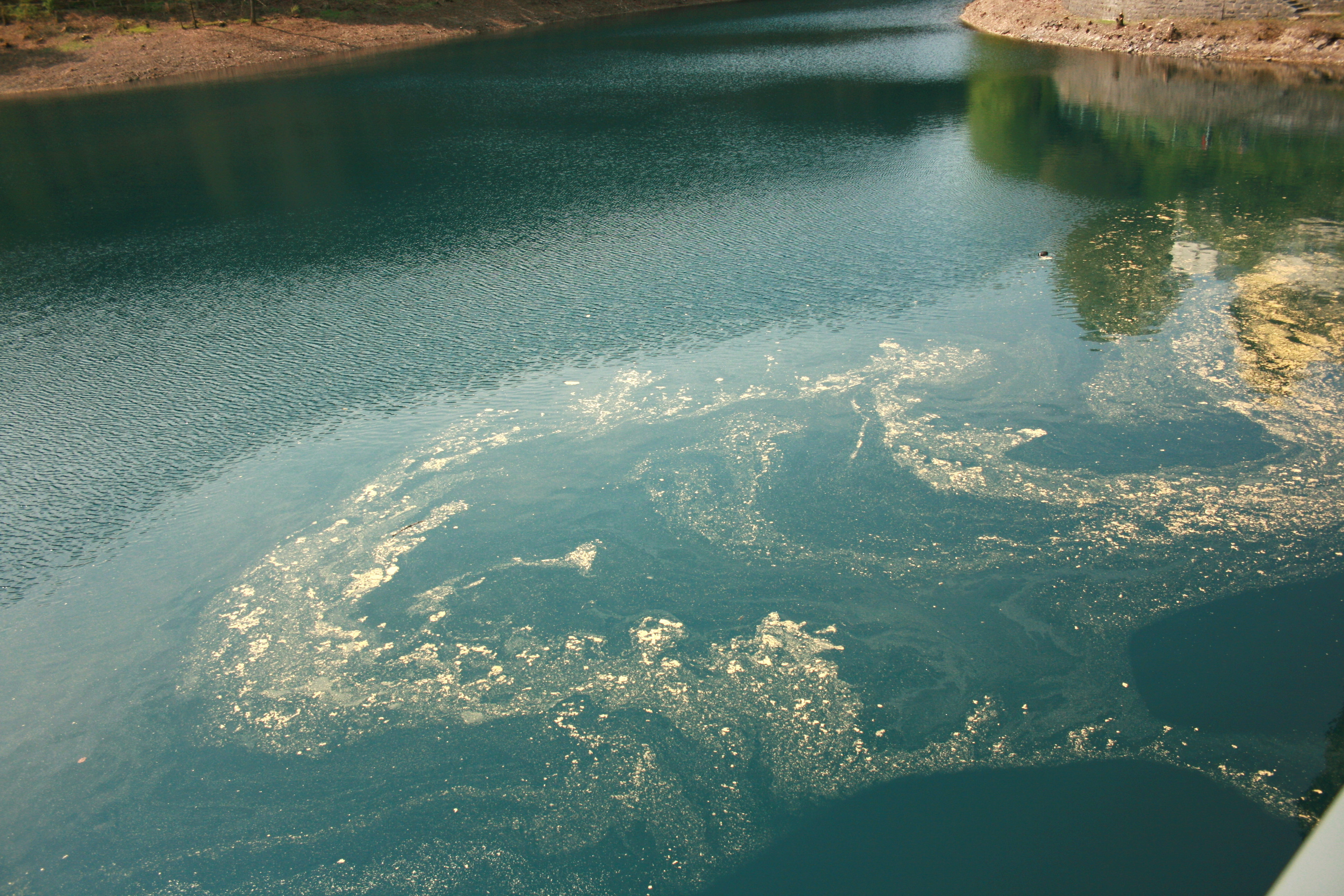 In spring zillions of pollen from surrounding trees drift on the water surface